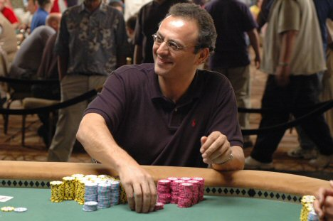 Harry Demetriou in 2005 World Series of Poker event #6 - Rio Las Vegas.